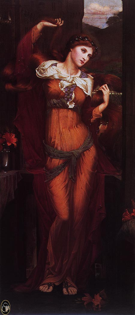 Morgan Le Fay